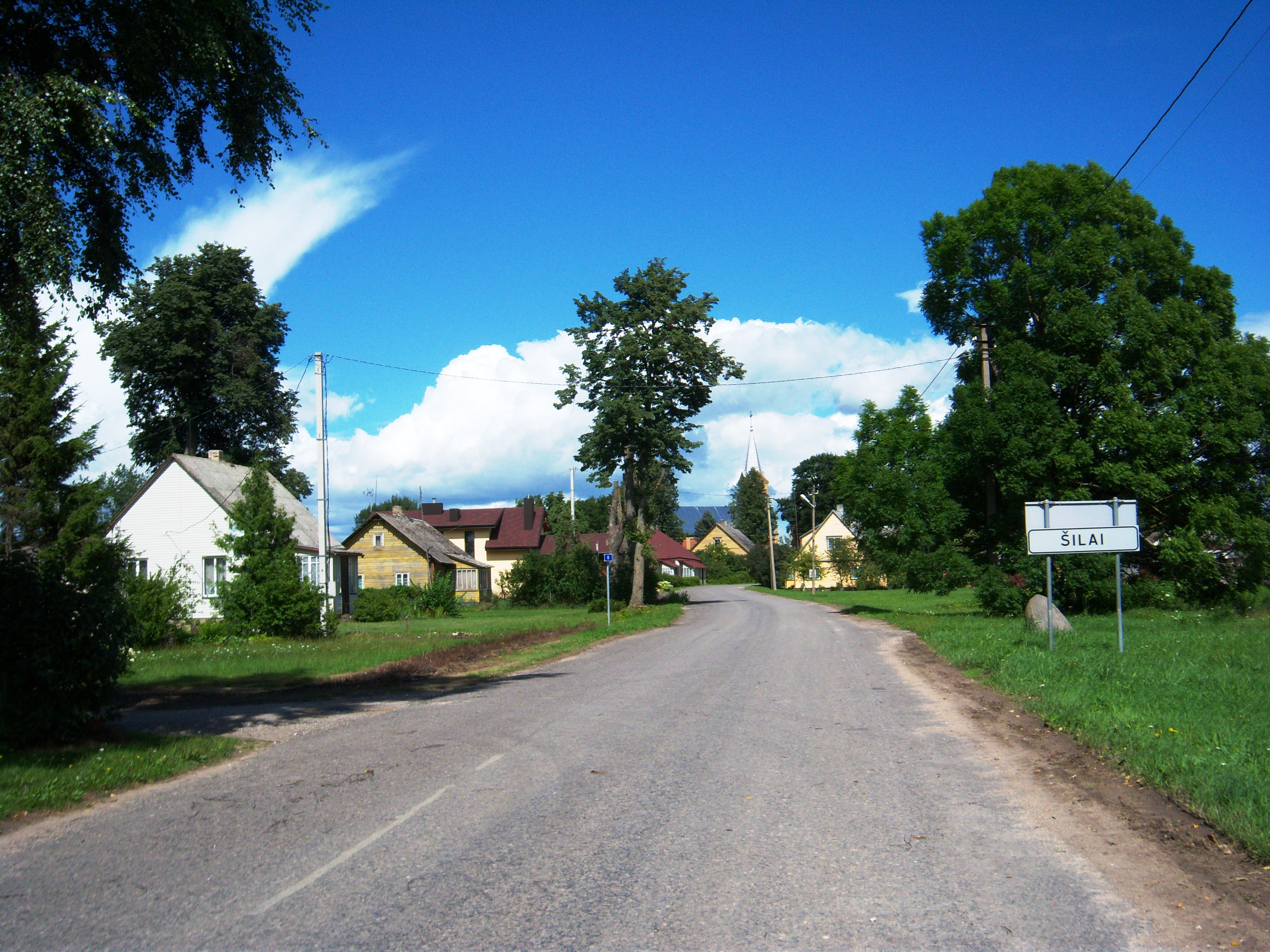 Šilai, Panevėžys District. Lithuania